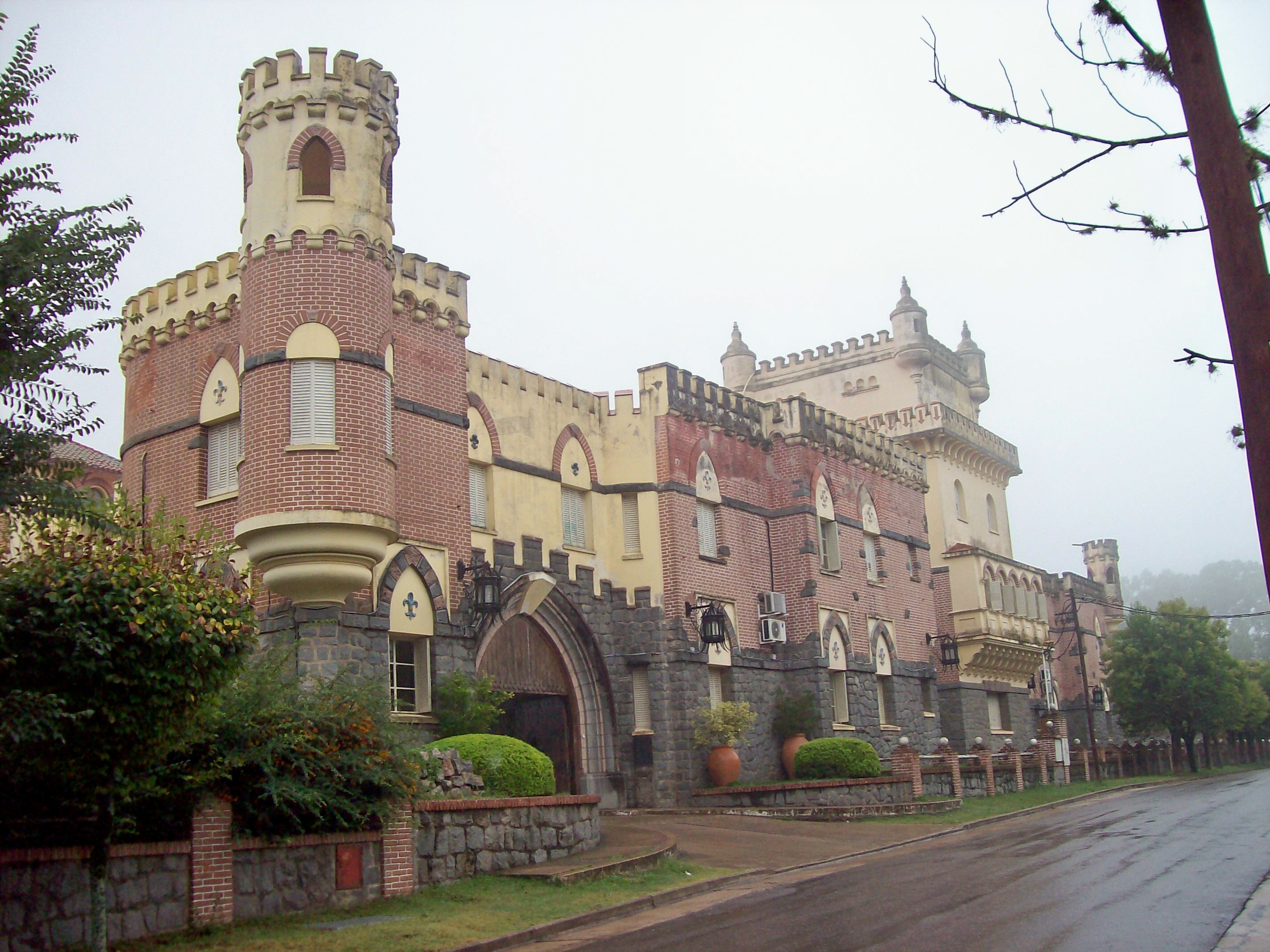 El Castillo Hotel Fabrega Center, in Valle Hermoso, in the foothills of Córdoba Province. Originally built in 1870 as the main house in the Las Playas Estancia, it was expanded to its current size in 1900 and converted into the Monte Olivo Hotel. The hotel closed in 1940, but reopened in 1970 as a labor union hotel for the UOM steelworkers' union. It closed again in 2000, and was reopened in 2006 under its current ownership.